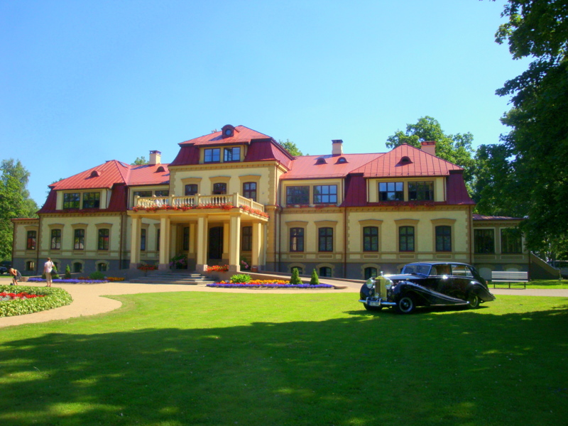 Nice place to spend a night. Dikļi manor house.